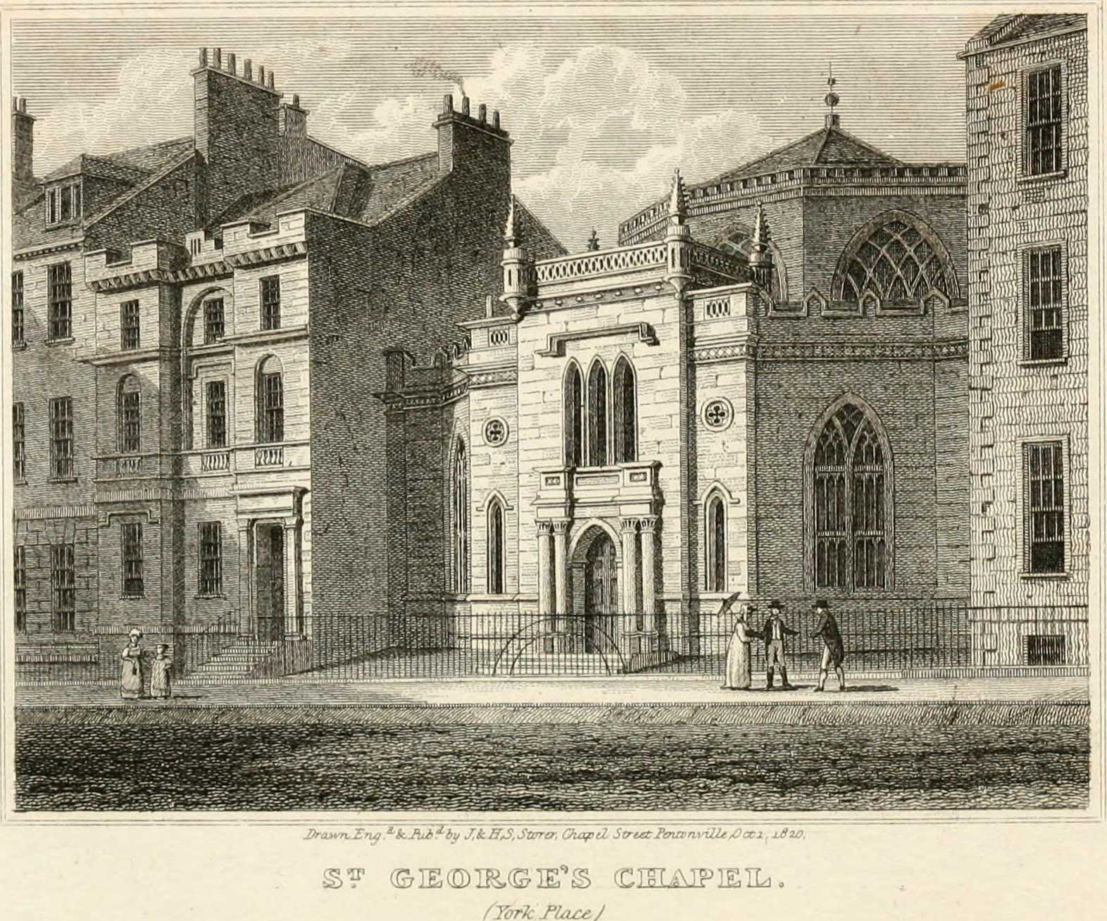 Illustration of St George's Chapel, York Place, Edinburgh built in 1794 by James Adam, closed 1932. From Views in Edinburgh and its Vicinity (1820).